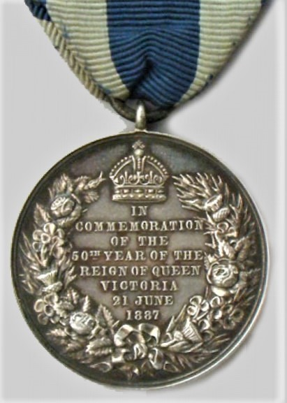 Victoria Golden Jubilee Medal 1887, reverse